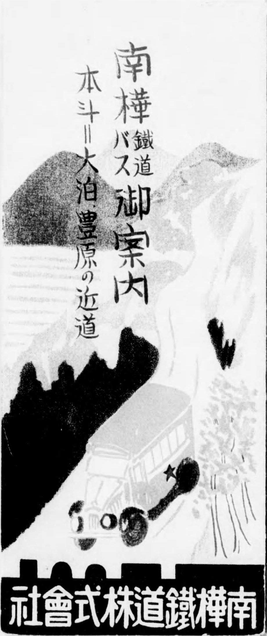 Nanka Railway brochure with route maps and timetables 南樺鉄道